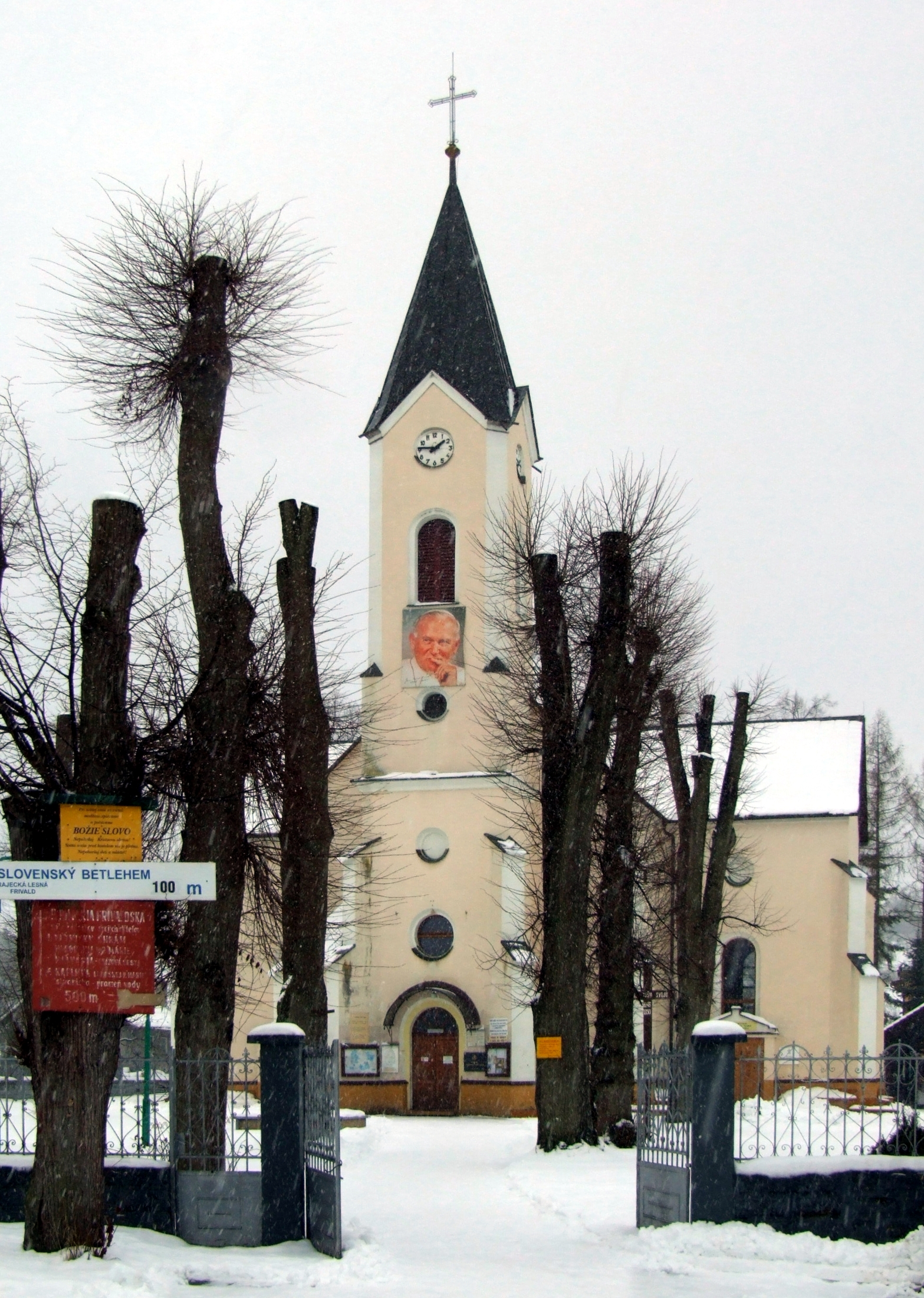 Basilica in Rajecká Lesná